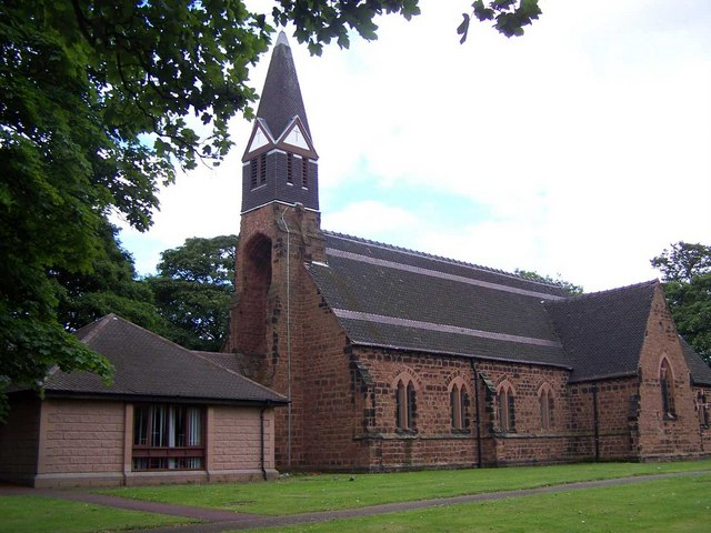 St James' parish church, Church Road, Brownhills, West Midlands, seen from the southwest